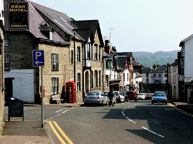 Church Street, Kington. Looking down the hill towards Kington town centre.